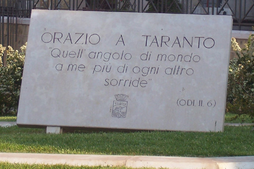 Horace to Septimius quote (Odes, II , 6, 13-14) - Taranto, Italy